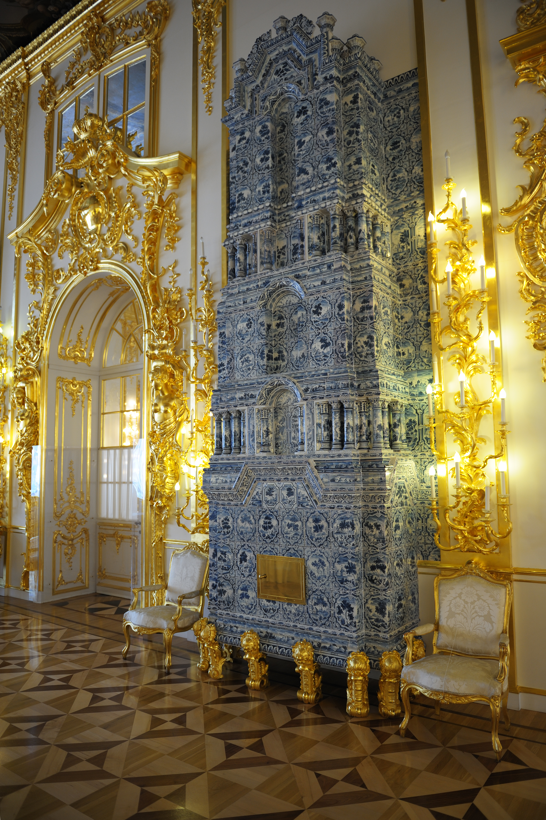 Tsarskoye Selo, Catherine Palace